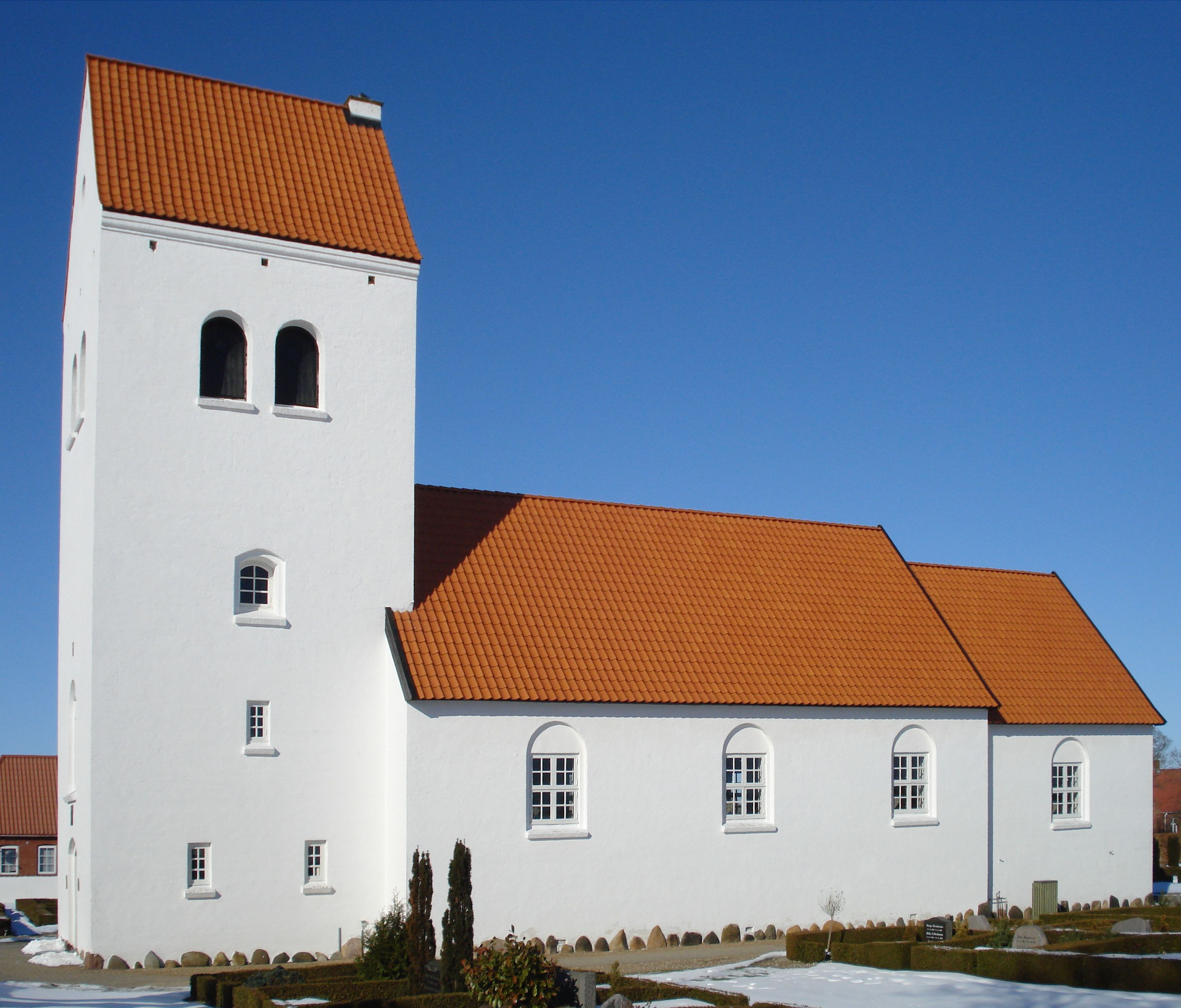 Grathe Kirke (Church) in Jutland, Denmark